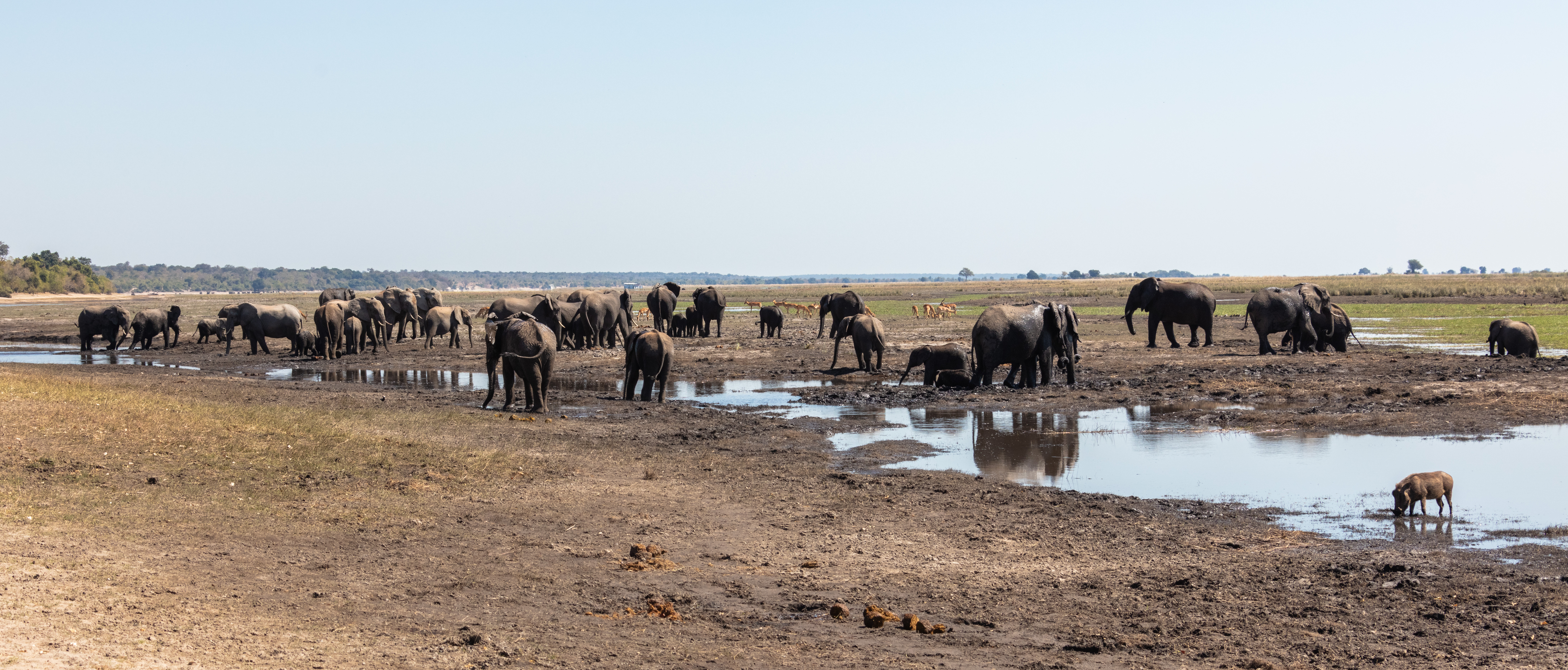 African bush elephants (Loxodonta africana), Chobe National Park, Botsuana